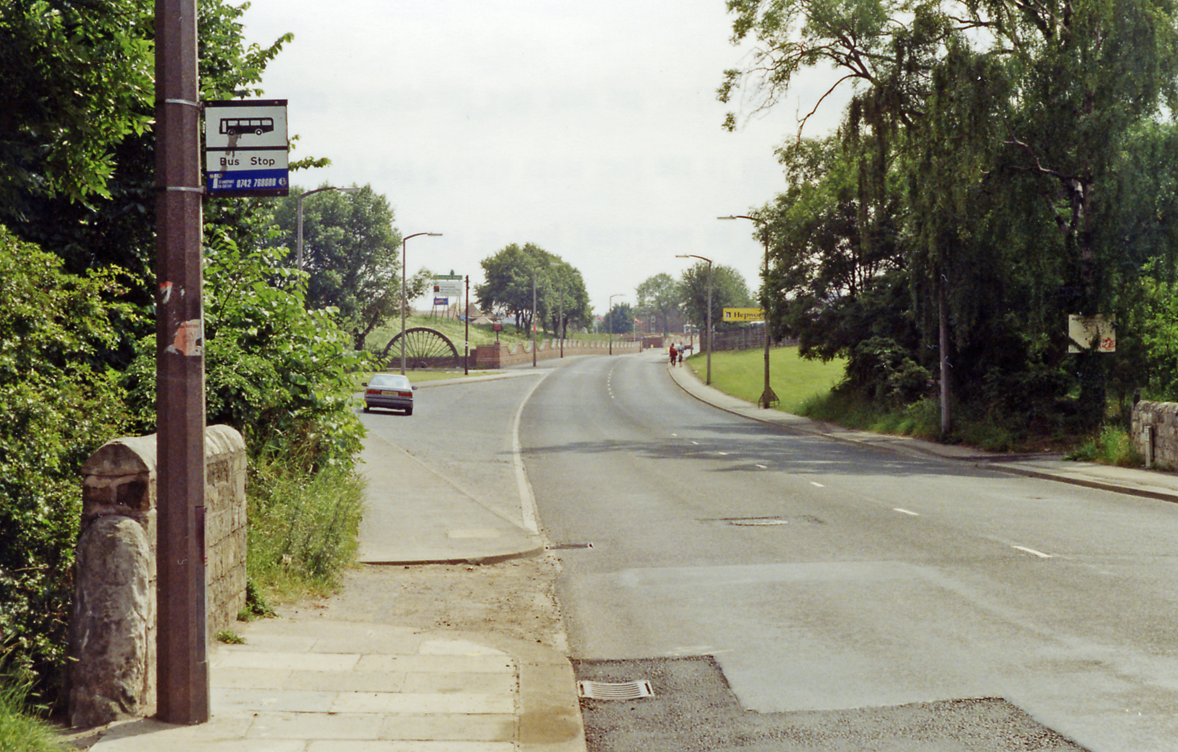 Edlington (Doncaster): site of former station/halt, 1992. View southward on the B6376 Warmsworth - Maltby road. The Halt had been on the left and was the terminus of the local service run until 10/9/51 from Wakefield on the ex-L&Y Dearne Valley mineral line, which continued to Black Carr and Bessacarr Junctions on the ex-GNR until 1966.